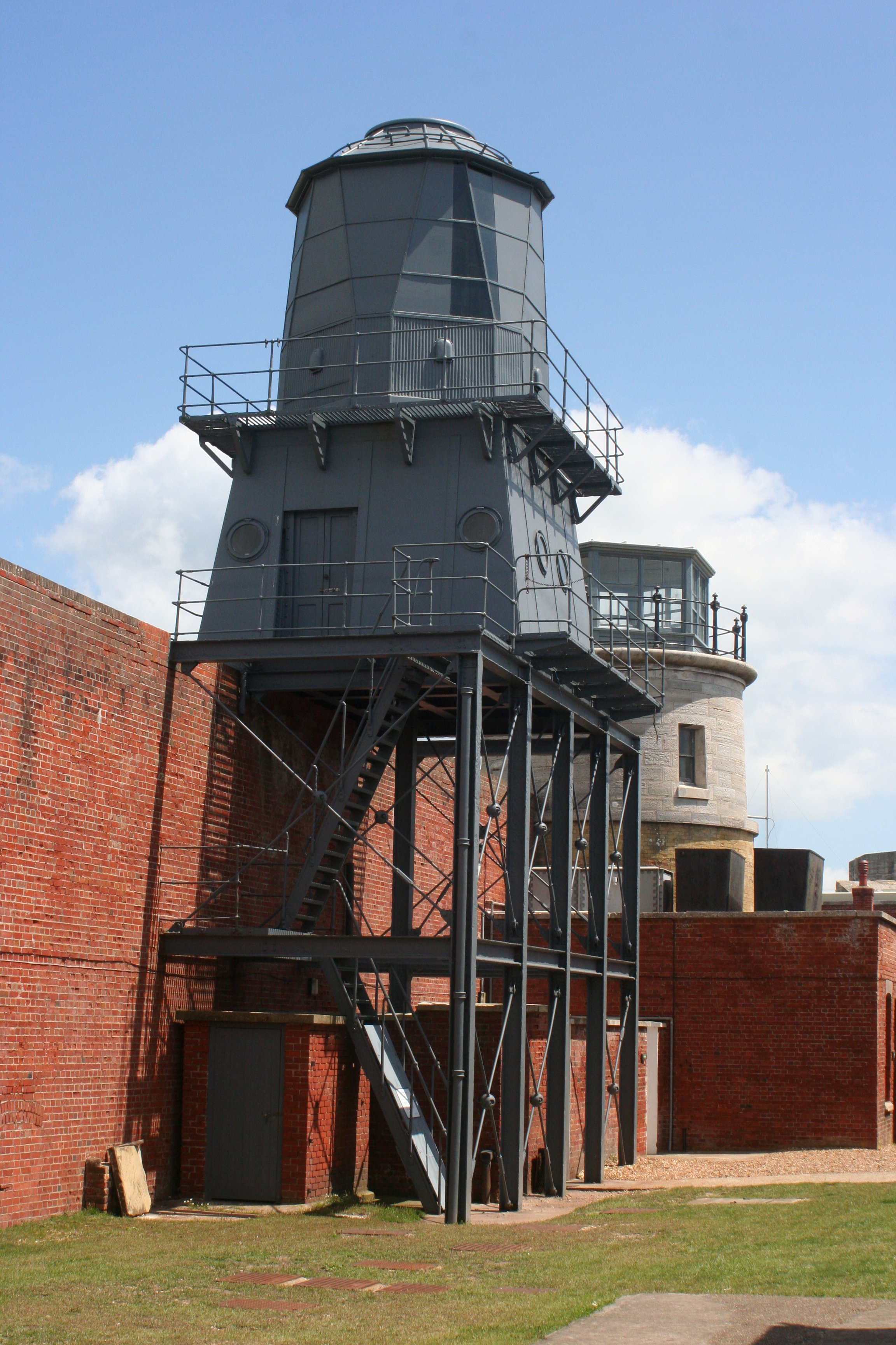 The two "Low Lighthouses" at Hurst Castle. The granite lighthouse was built in 1866; the metal lighthouse replaced it in 1911. The 1911 lighthouse was decommissioned in 1997.